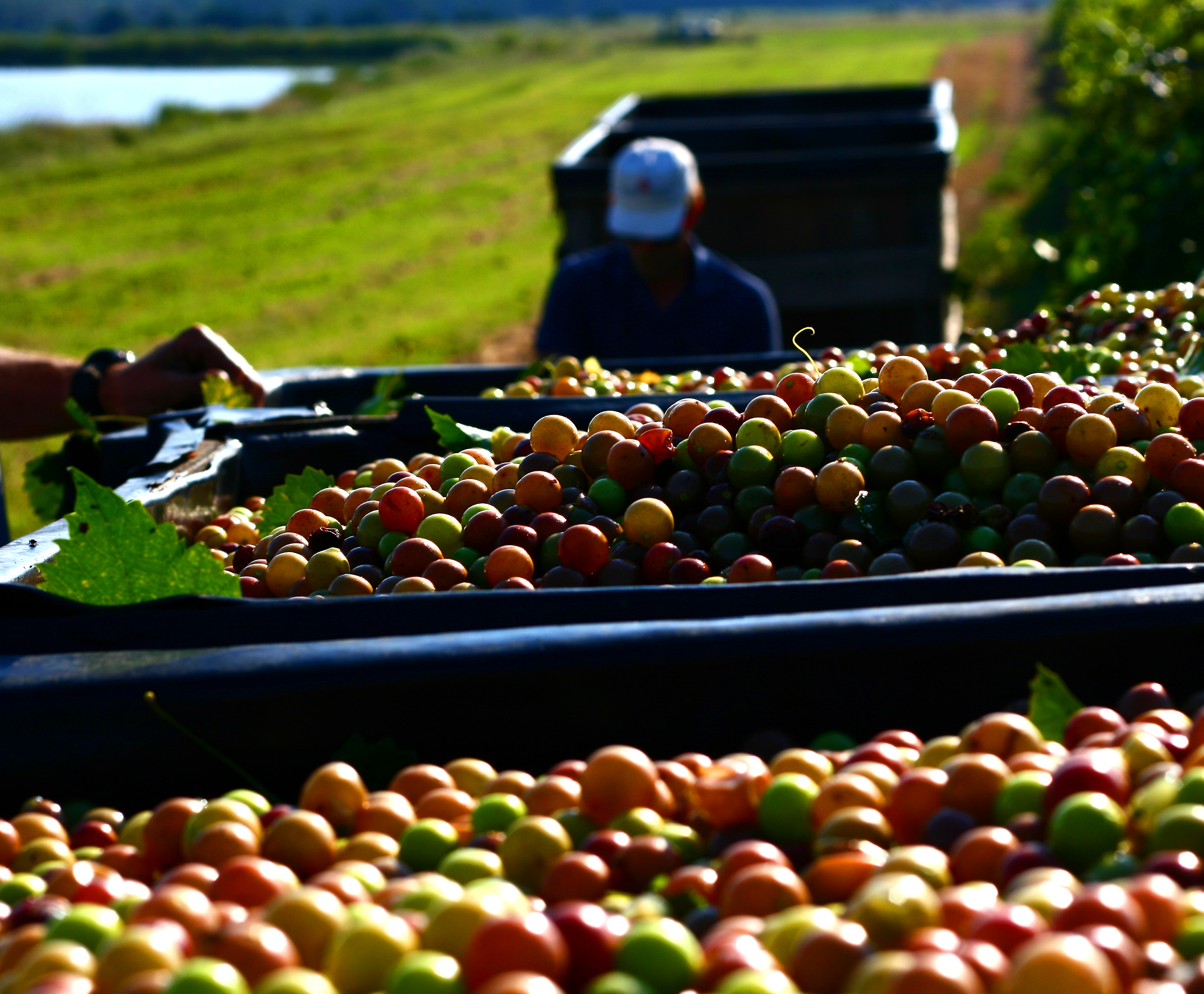 I handed the still camera off to Greg while I was riding the muscadine harvester at the Post Familie Vineyard in Altus, AR, this weekend. He's a natural. I forgot to ask how many 'dimes will fill one of these boxes. A lot. We were out shooting at 8am (after a 7:30 Mass), though many of them were out working long before that. The light is pretty great at 8am, I'm coming to find out. See this shot in context with some more info HERE.